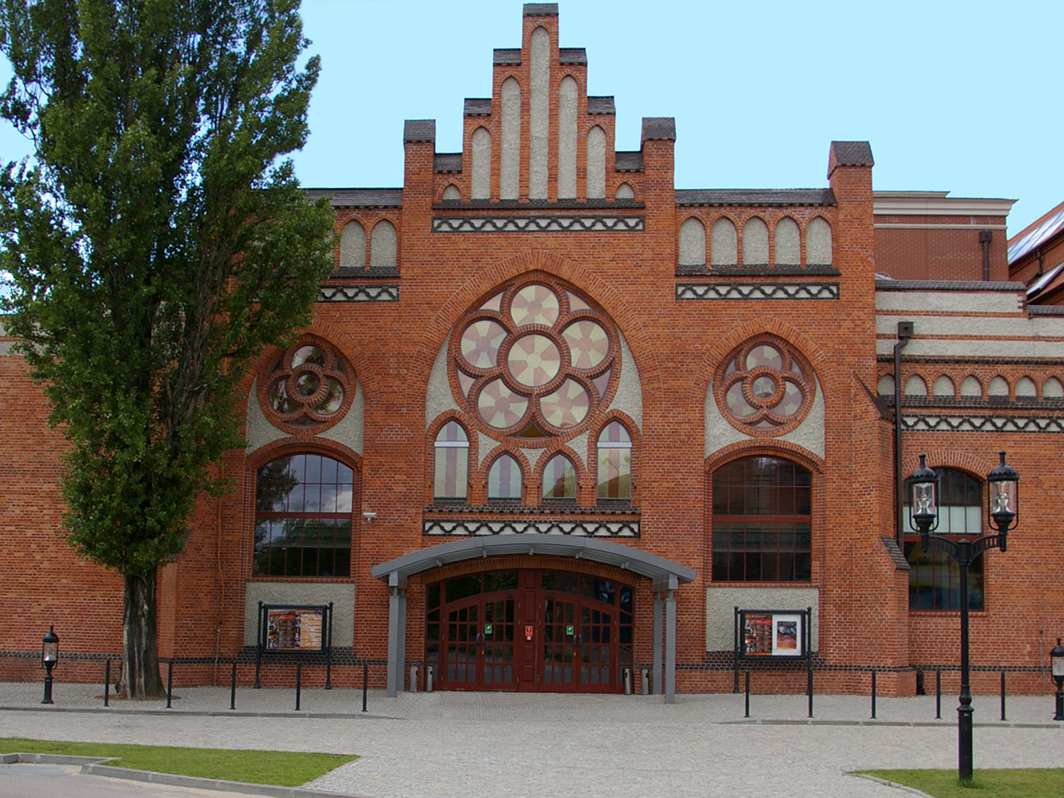 Frederick Chopin Polish Baltic Philharmonic in Gdańsk